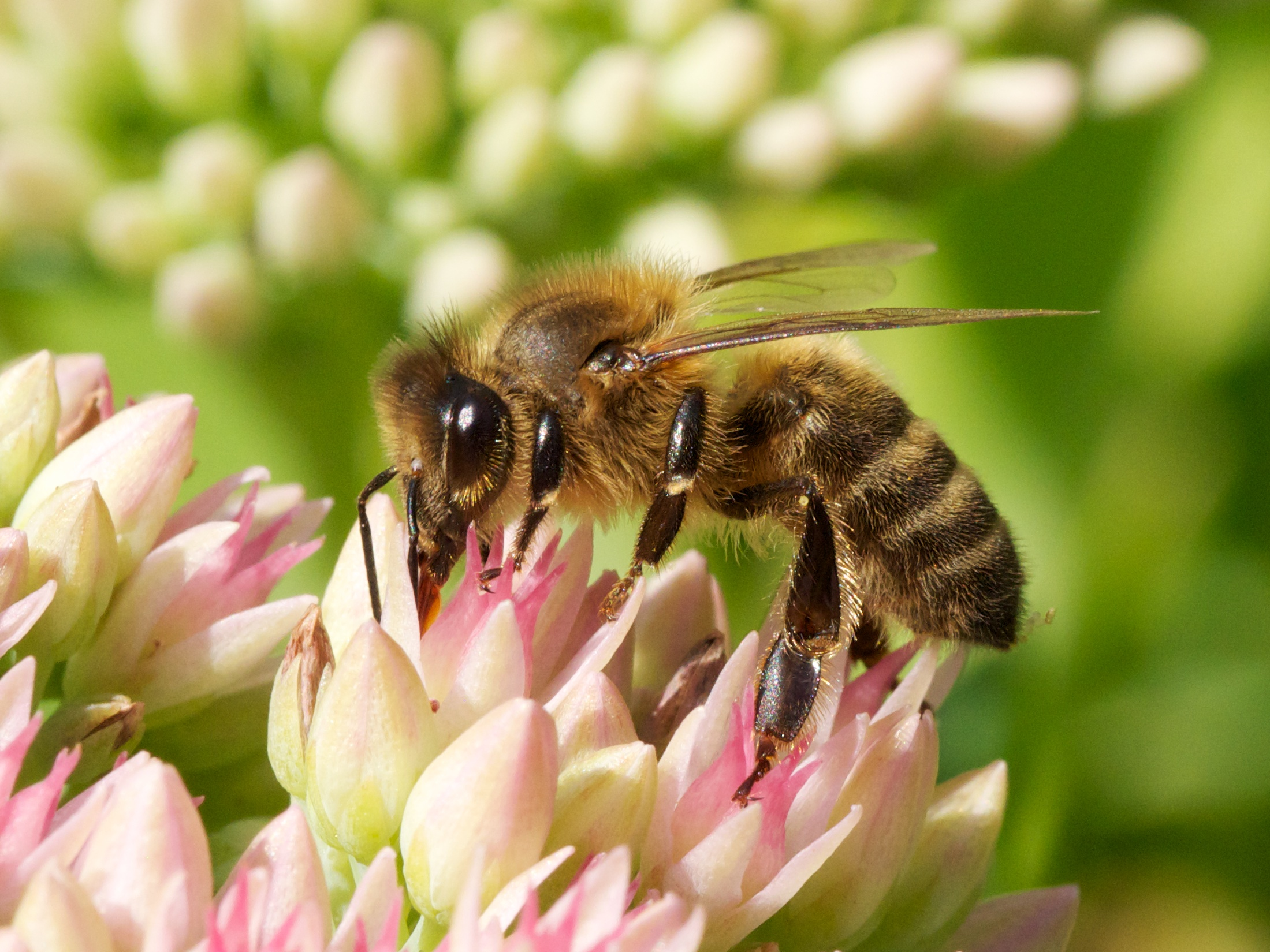 A bee (apis mellifera) on a stonecrop (Hylotelephium)